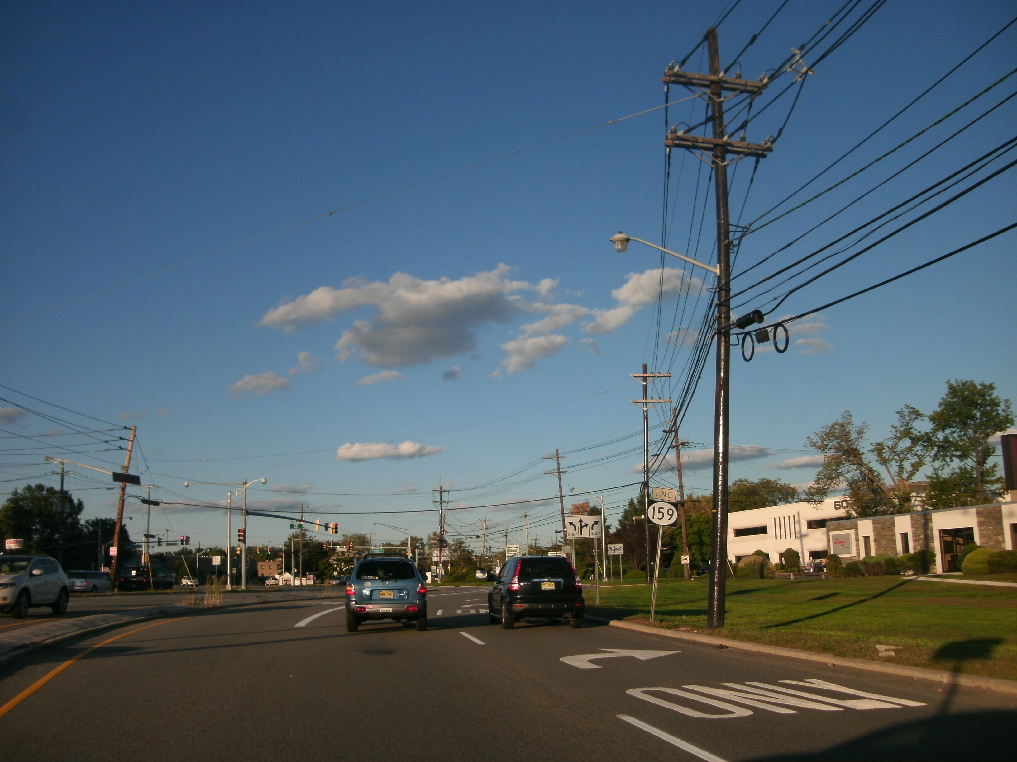 The terminus of New Jersey Route 159 in the town of Fairfield, New Jersey.